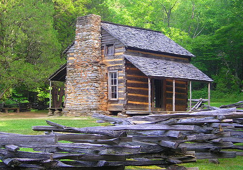 Shot John Oliver Cabin , Cades Cove TN. 2007. Sony Camera.